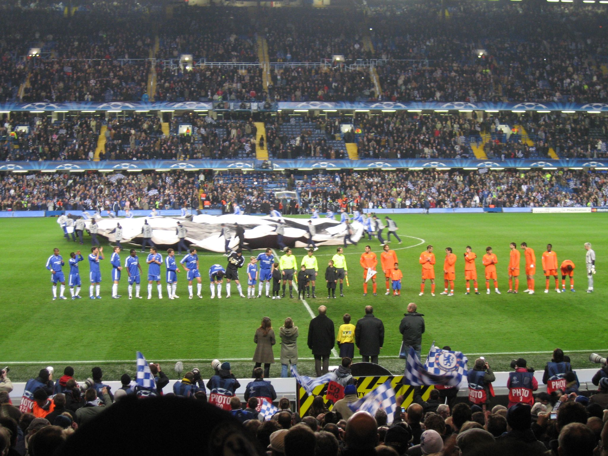 Champions League 2007-08 match between Chelsea FC and Vanlencia CF, in Stamford Bridge. Result was 0-0.